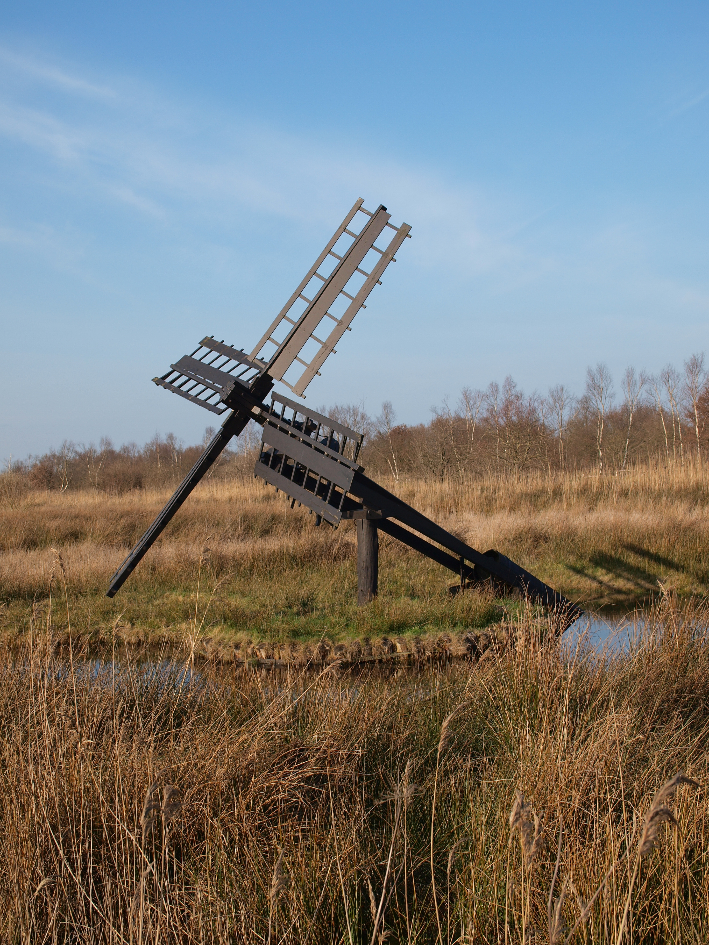 Tjasker windmill in De Deelen